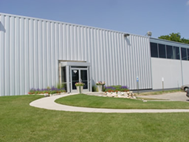 Headquarters